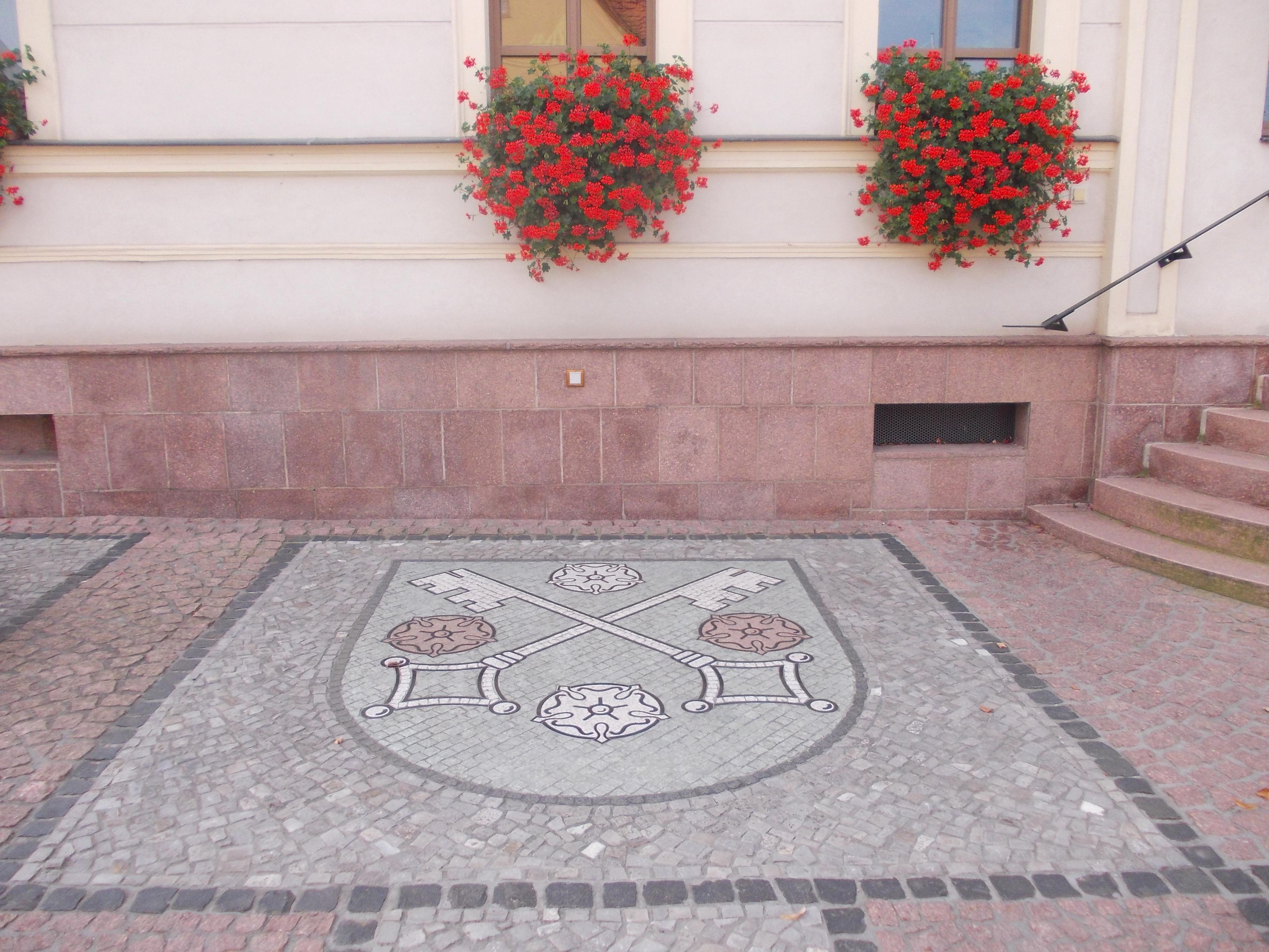 Town hall in Löbejün (Wettin-Löbejün, district: Saalekreis, Saxony-Anhalt)